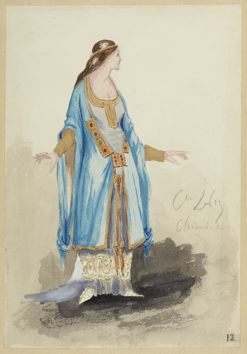 Massenet - Le Cid - Costume sketches by Lepic - 12 Chimène